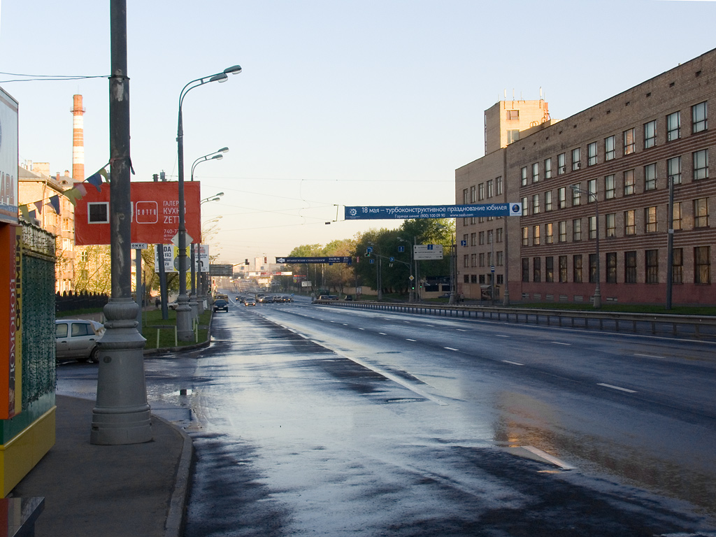 Zvenigorodskoe Shosse, Moscow, Russia.